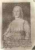 An engraving of Moravian spiritual leader Christian Renatus von Zinzendorf (1727-1757). The words in translation are "The lovely poem which one can see from his forehead is the simple story that our lord departed."